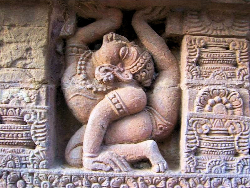 A Sculpture at Parsurameswar Temple, BBSR